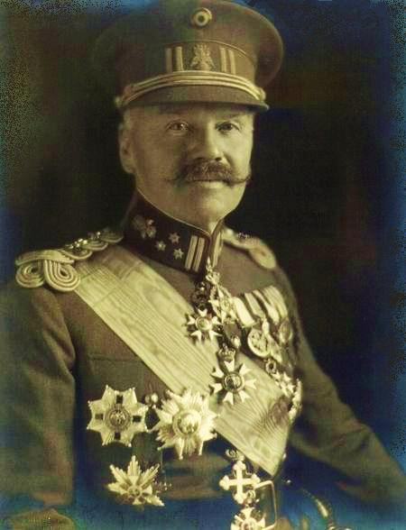 General Jules Alphonse JACQUES de Dixmude (1858-1928) Belgian soldier and Explorer of Congo Free State